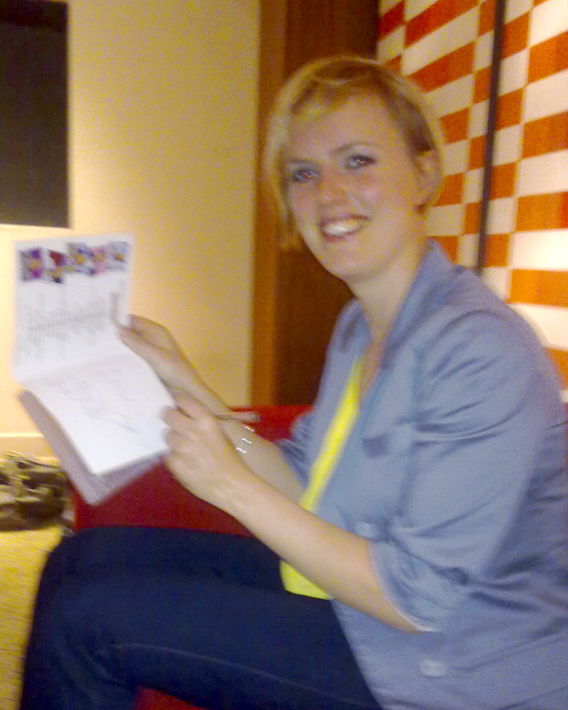 Holly's first autograph backstage after Mock the Week recording.